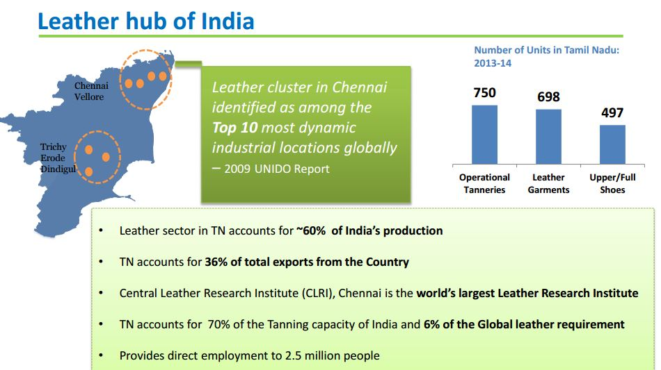 Tamil Nadu - Leather Hub of India.